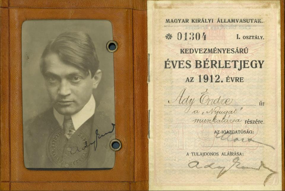 Endre Ady's annual pass for 1912. Hungarian Royal State Railways